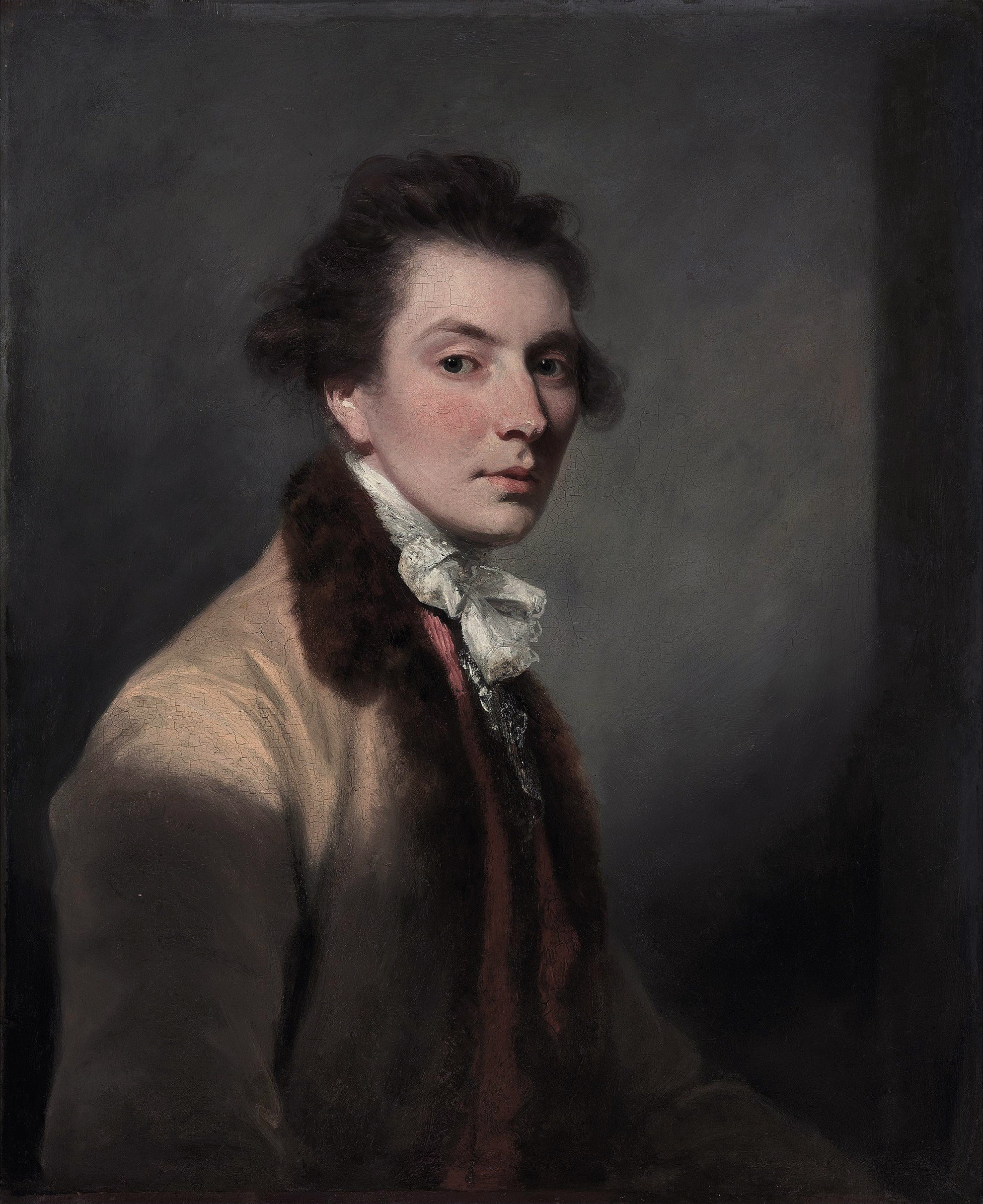 Luke Gardiner, 1st Viscount Mountjoy (1745-1798), in a beige, fur-trimmed coat, white stock and striped red waistcoat with the label 'Luke Viscount Mountjoy painted by Sir Joshua Reynolds This Picture given by CJG [Charles John Gardiner, 1st Earl of Blessington] to Robert Fowler Esq 1839' (on the reverse of the panel) Reynolds painted another version of this portrait; in a letter, believed to date from July 1773, he told Luke Gardiner 'I shall send away your picture (the best of the two) immediately; the other I know is to remain here. I have forgot what place it is to be sent.'